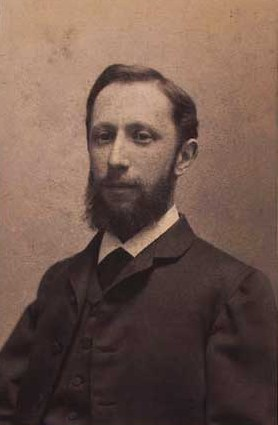 Isidor Heckscher (1848-1923), Danish jurist and consul